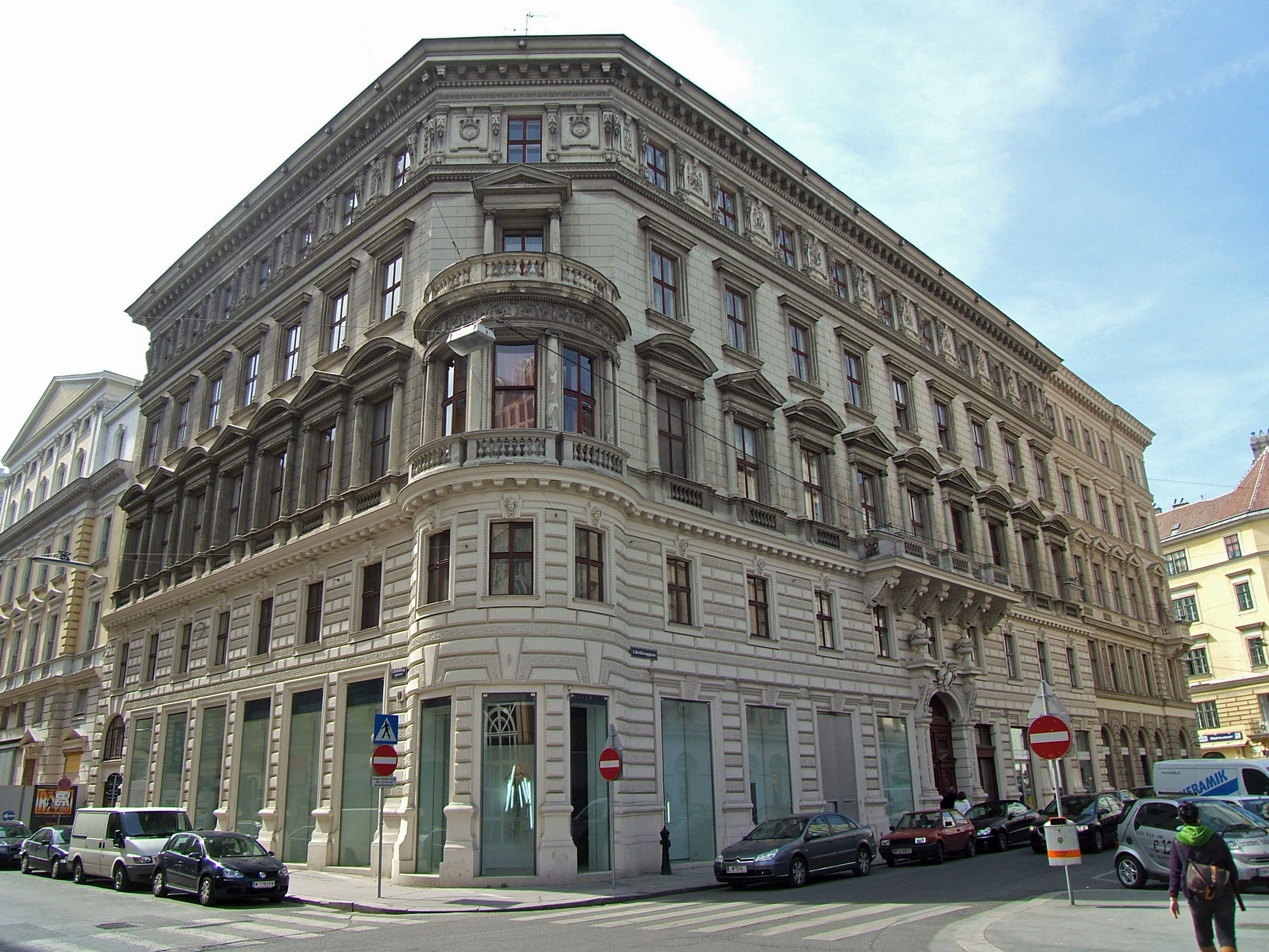 View of Palais Abensperg-Traun, Weihburggasse 26, Vienna, Austria